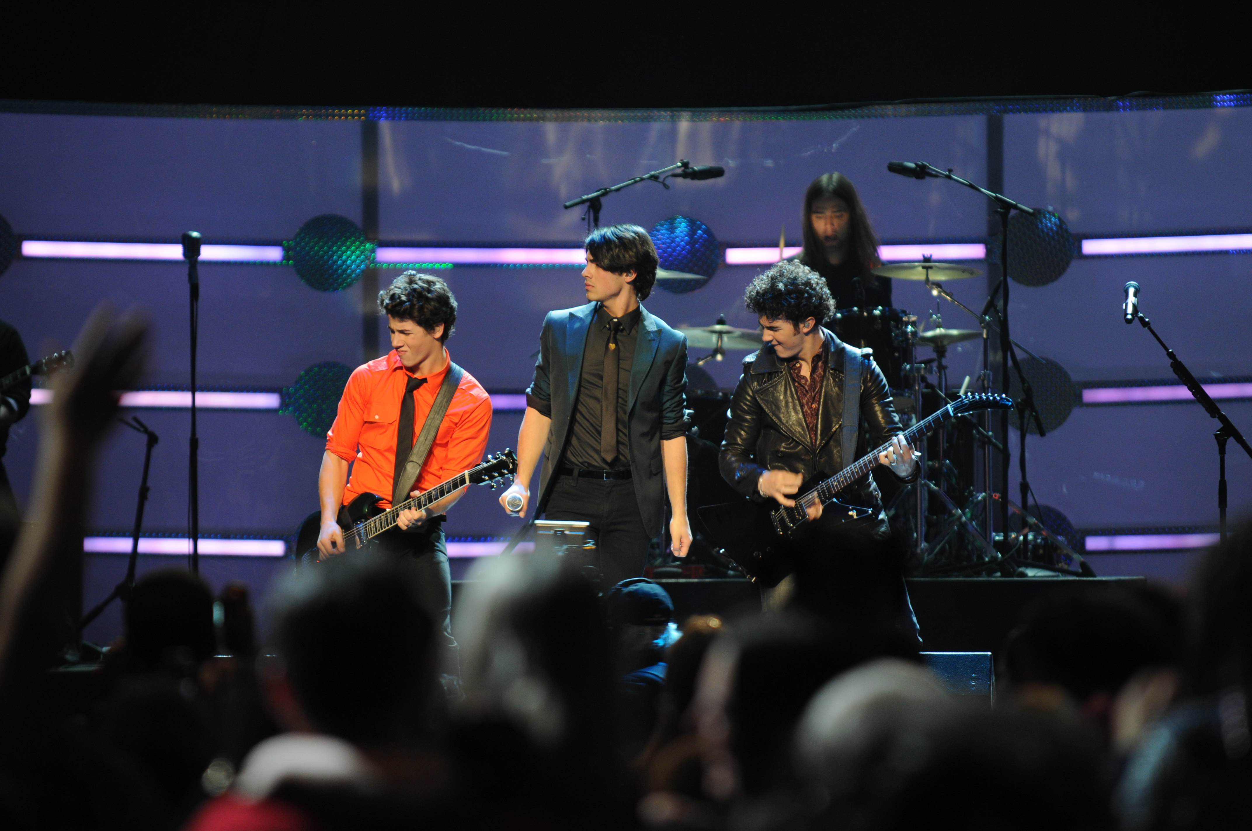 The Jonas Brothers perform at the "Kids Inaugural: We Are the Future" concert at the Verizon Center in downtown Washington, D.C., Jan. 19, 2009.